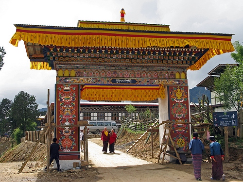 Gate to Gante Goemba − Gangteng Monastery, in Bhutan.